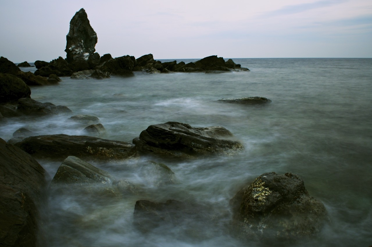 This rock is located on Nushima island, Japan. Folklore says it's the birth place of the Japanese Islands. It's a hard place to climb down too and taking off the ND filter to line up the shot was not possible. NIKON 5000 | ND400